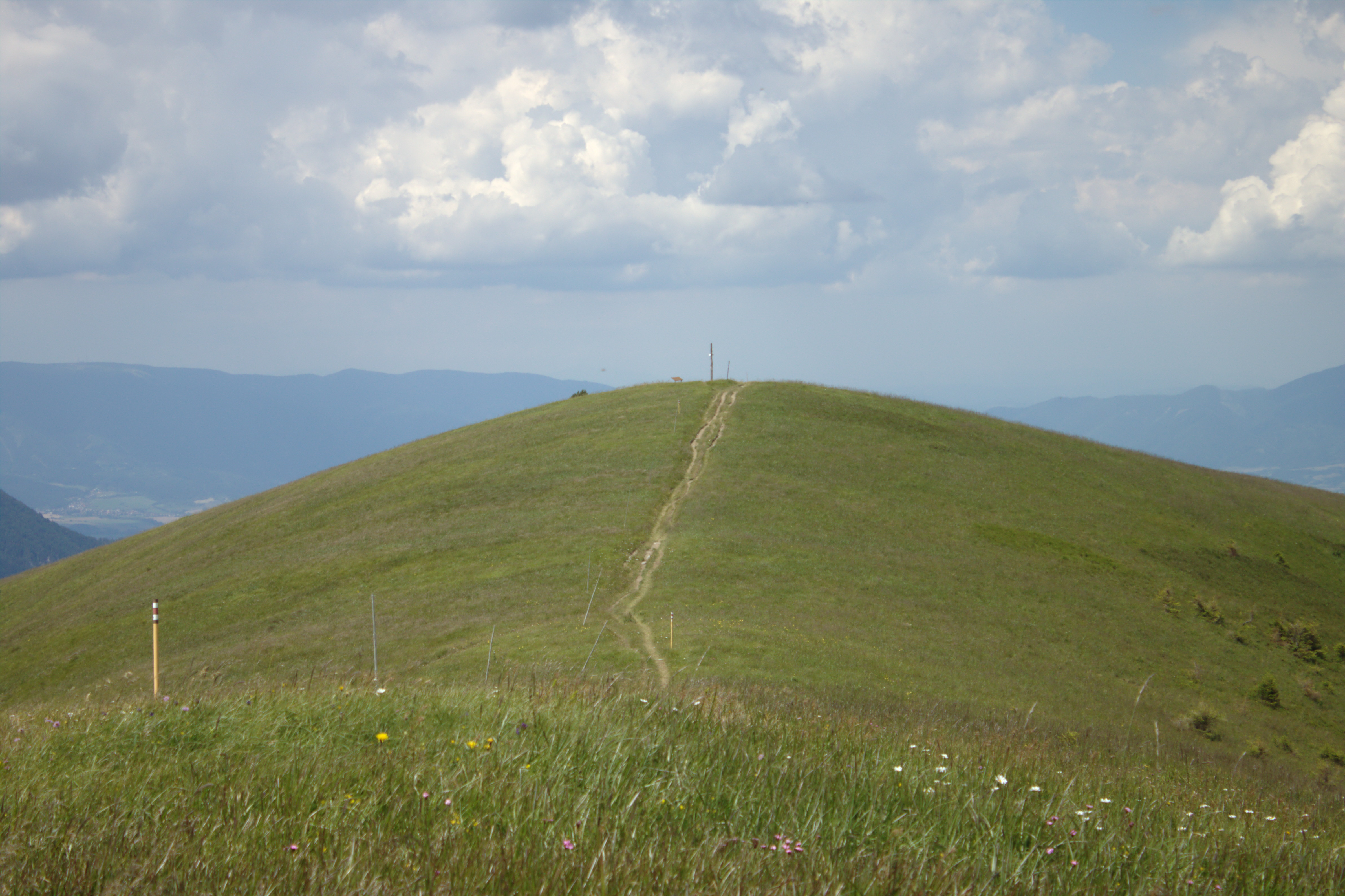 Top of the Ostredok hill in Veľká Fatra mountains, Slovakia